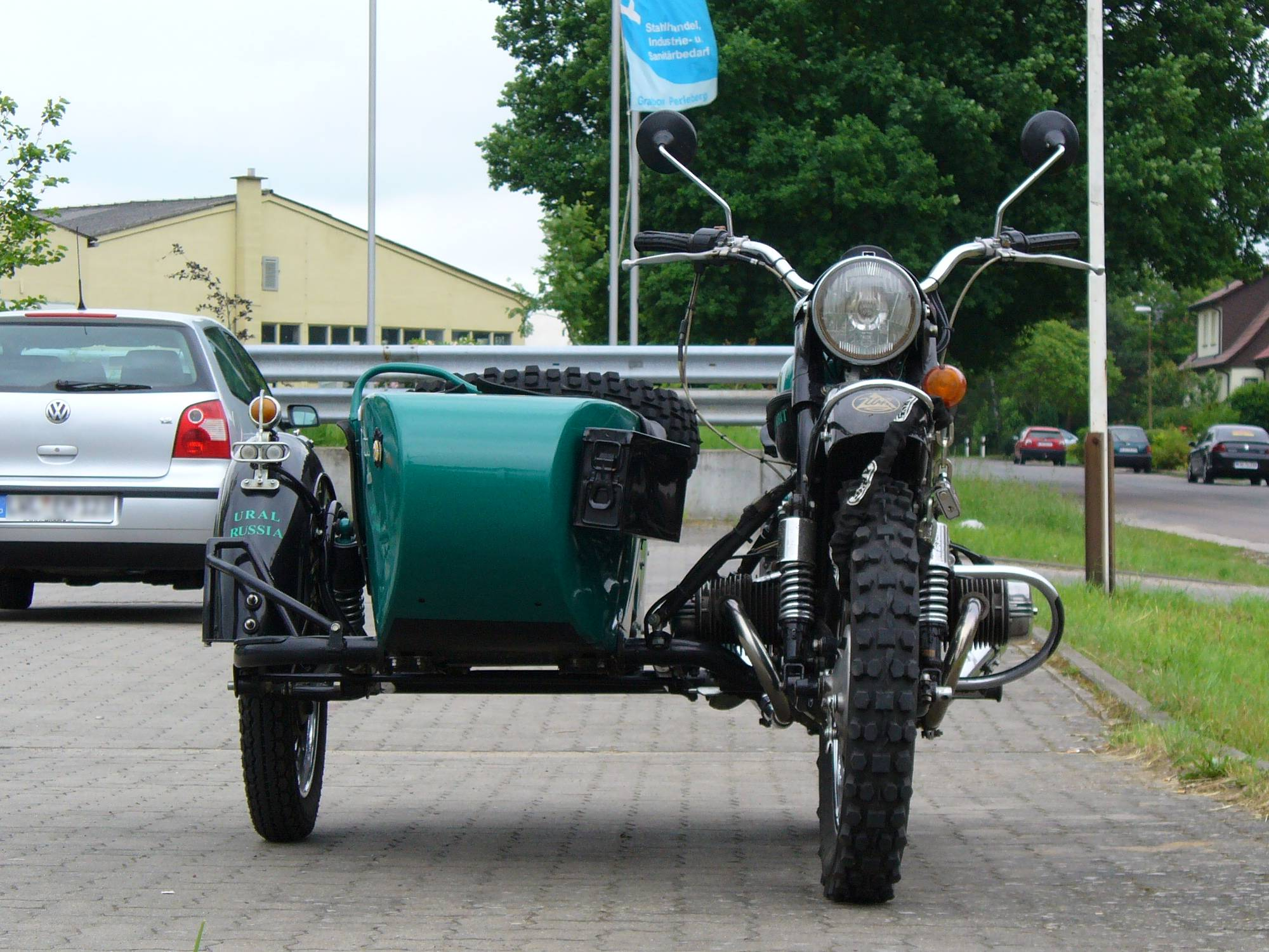 Russian motorcycle Ural IMZ 650